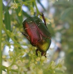 Near Higuera de Calatrava, Jaén, Spain.